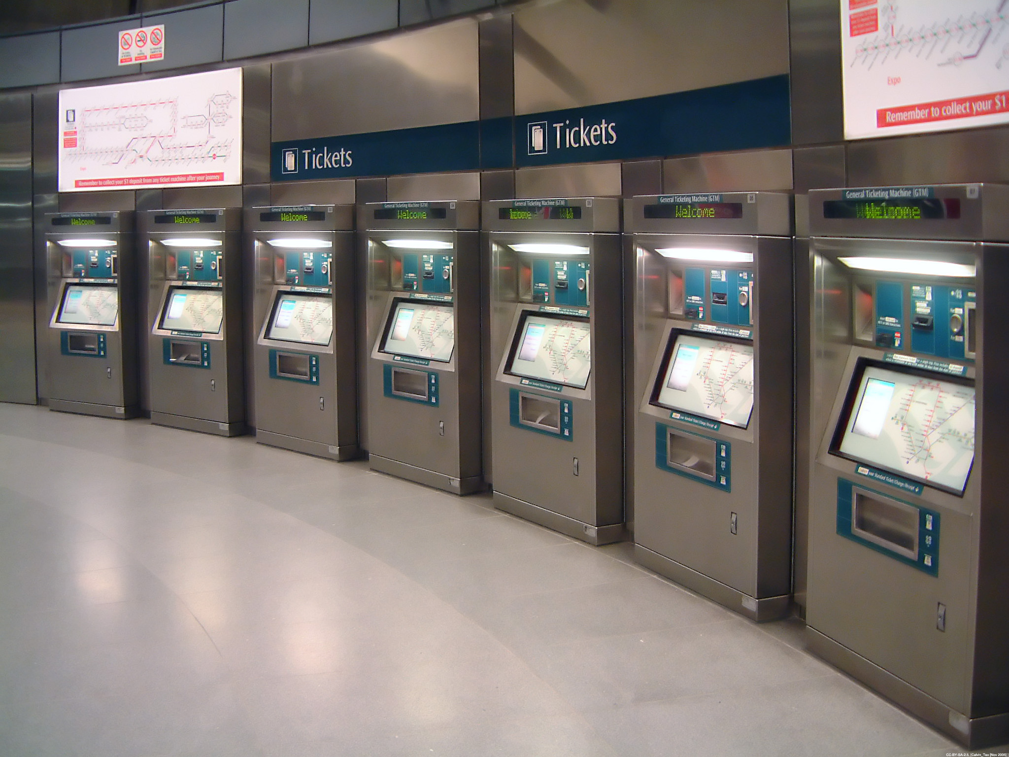 A row of Variant 1 General Ticketing Machines (GTM) at the ground floor of Expo MRT Station, which is one of two stations on the Changi Airport Extension. Image Captured by Calvin Teo November 2005